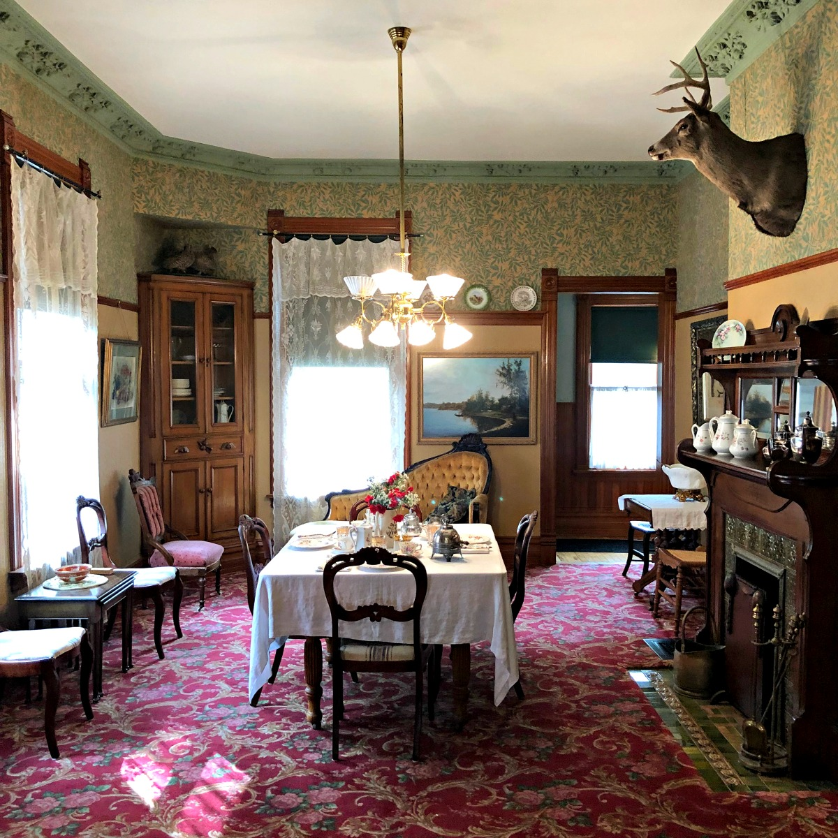 Dining room, Hemingway Birthplace, Oak Park, Illinois. Ernest Hemingway was born in this house in 1899 and lived here with his family for six years.